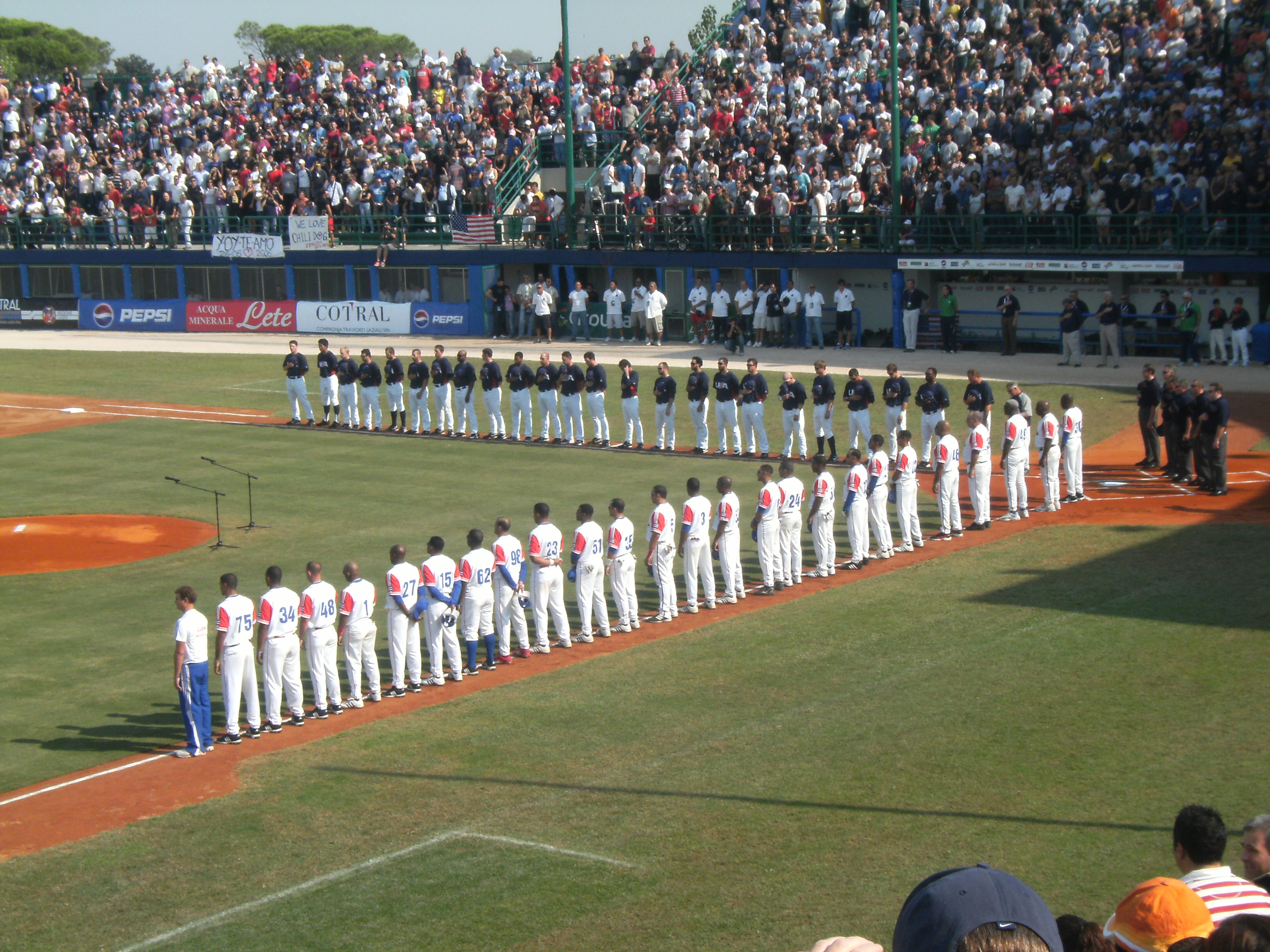 2009 Baseball World Cup - Final